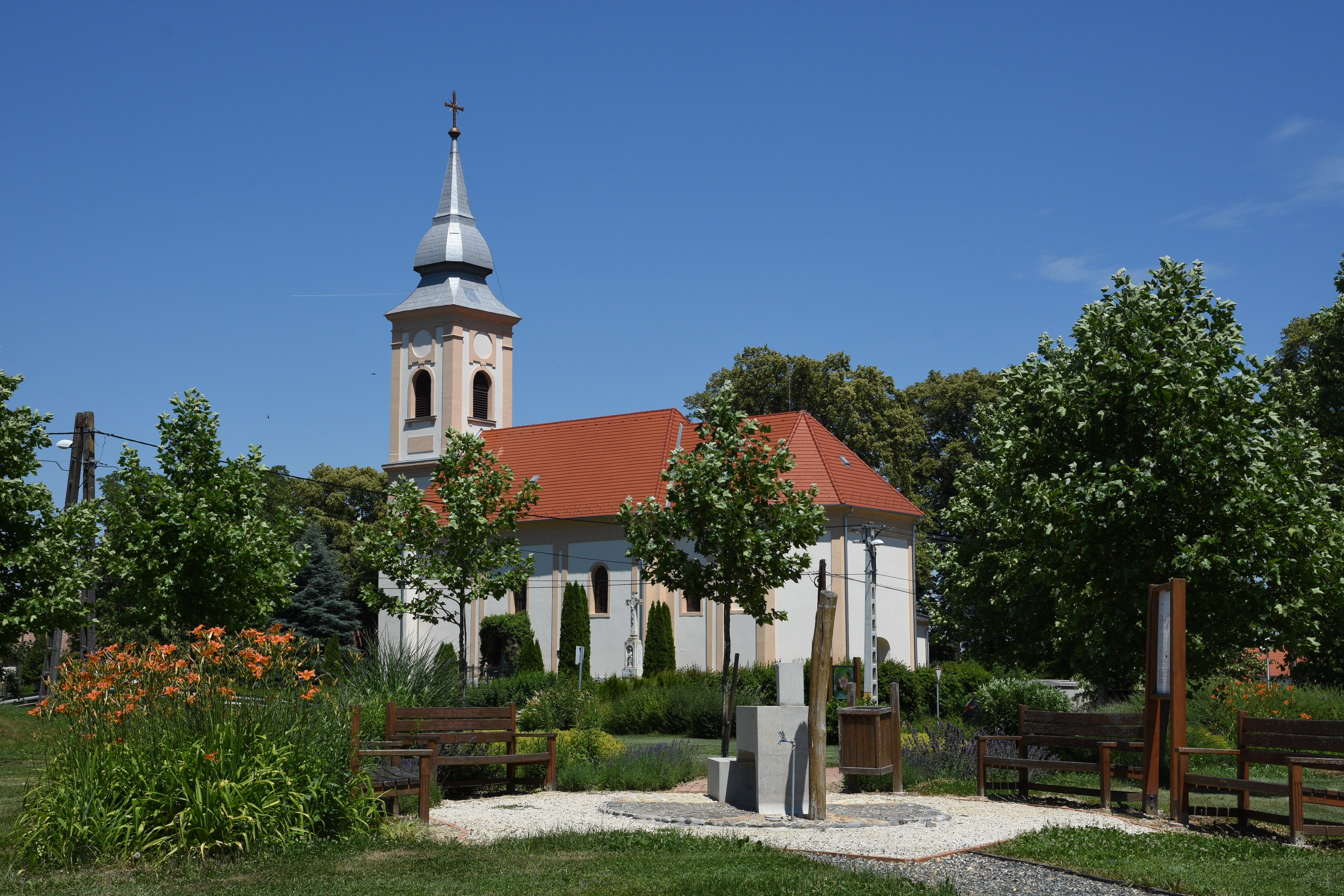 Church of Rábahídvég, Szentháromság római katolikus templom